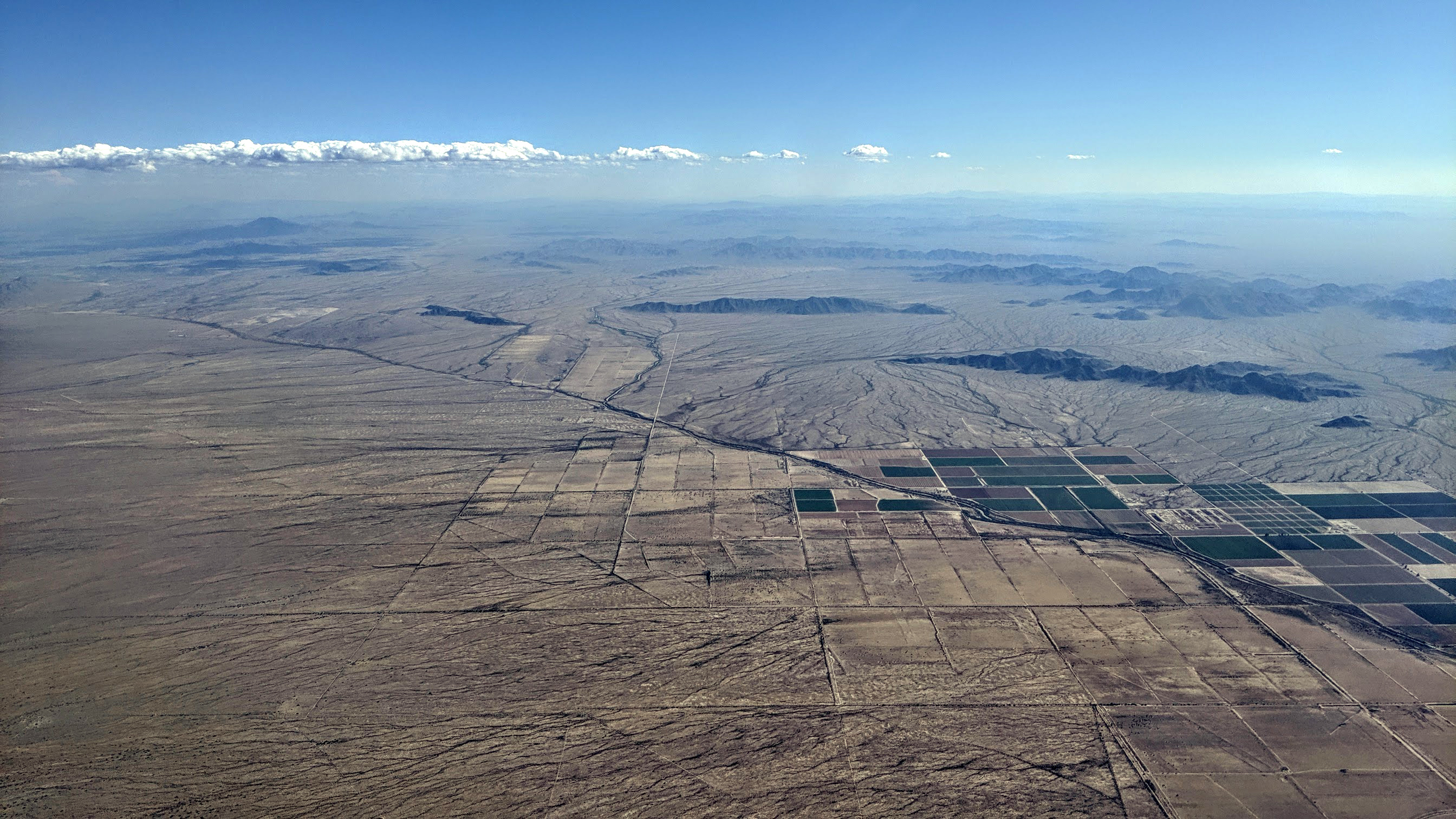 Aerial view, from the north-northeast, of Waterman Wash, Goodyear, Maricopa County, Arizona